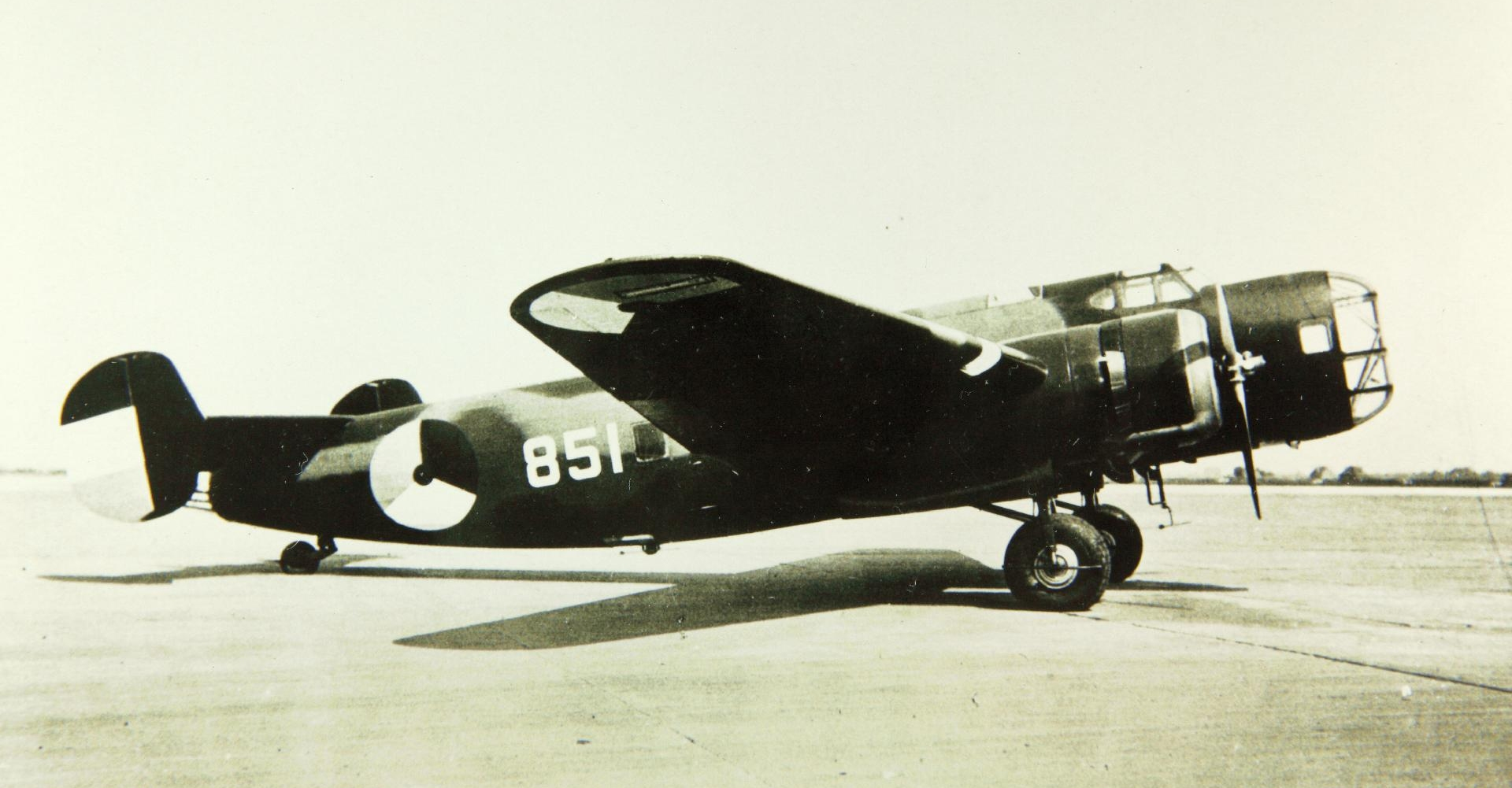 Fokker T.V "aerial cruiser", 1939.